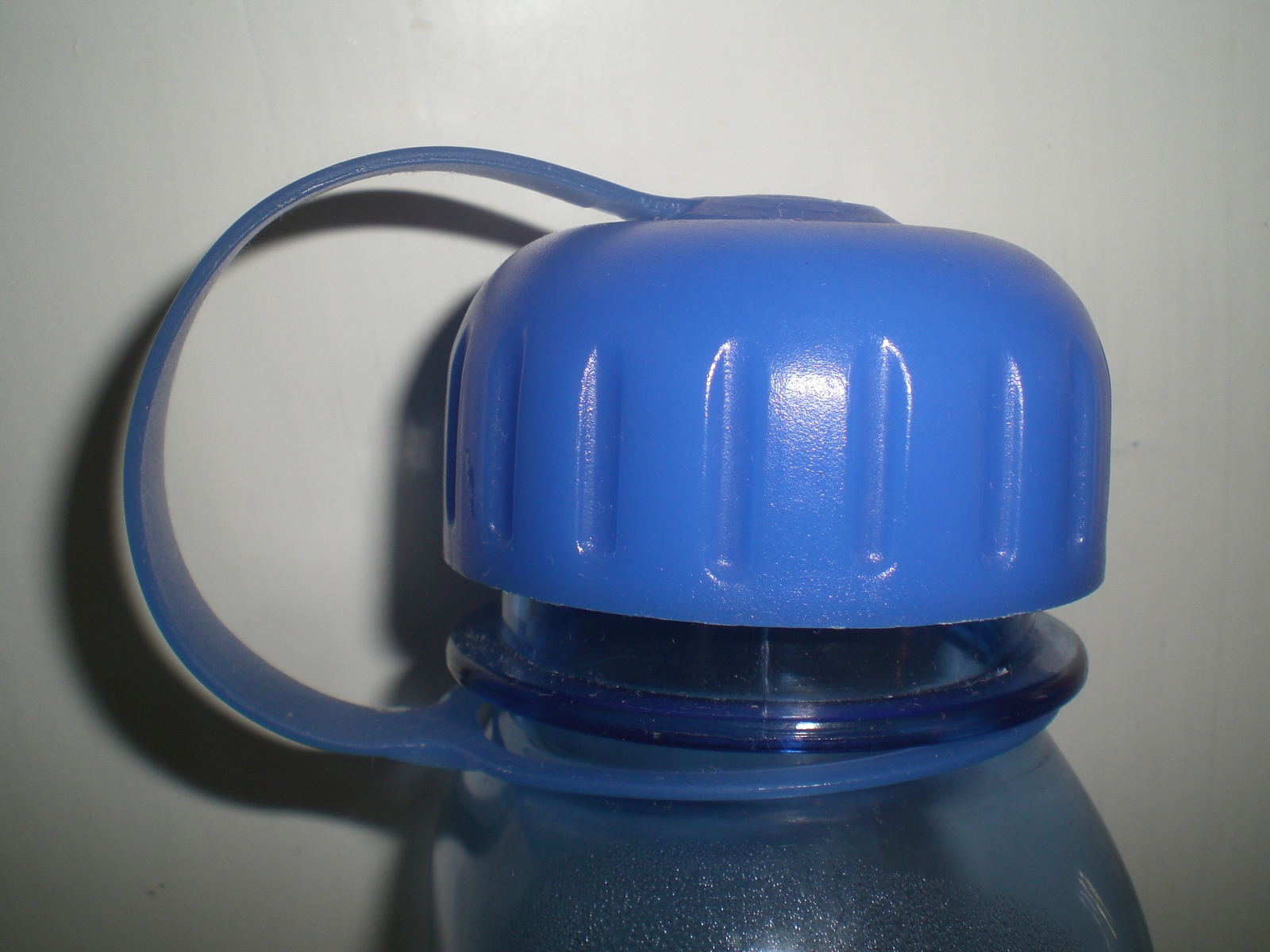 蓋 (容器)